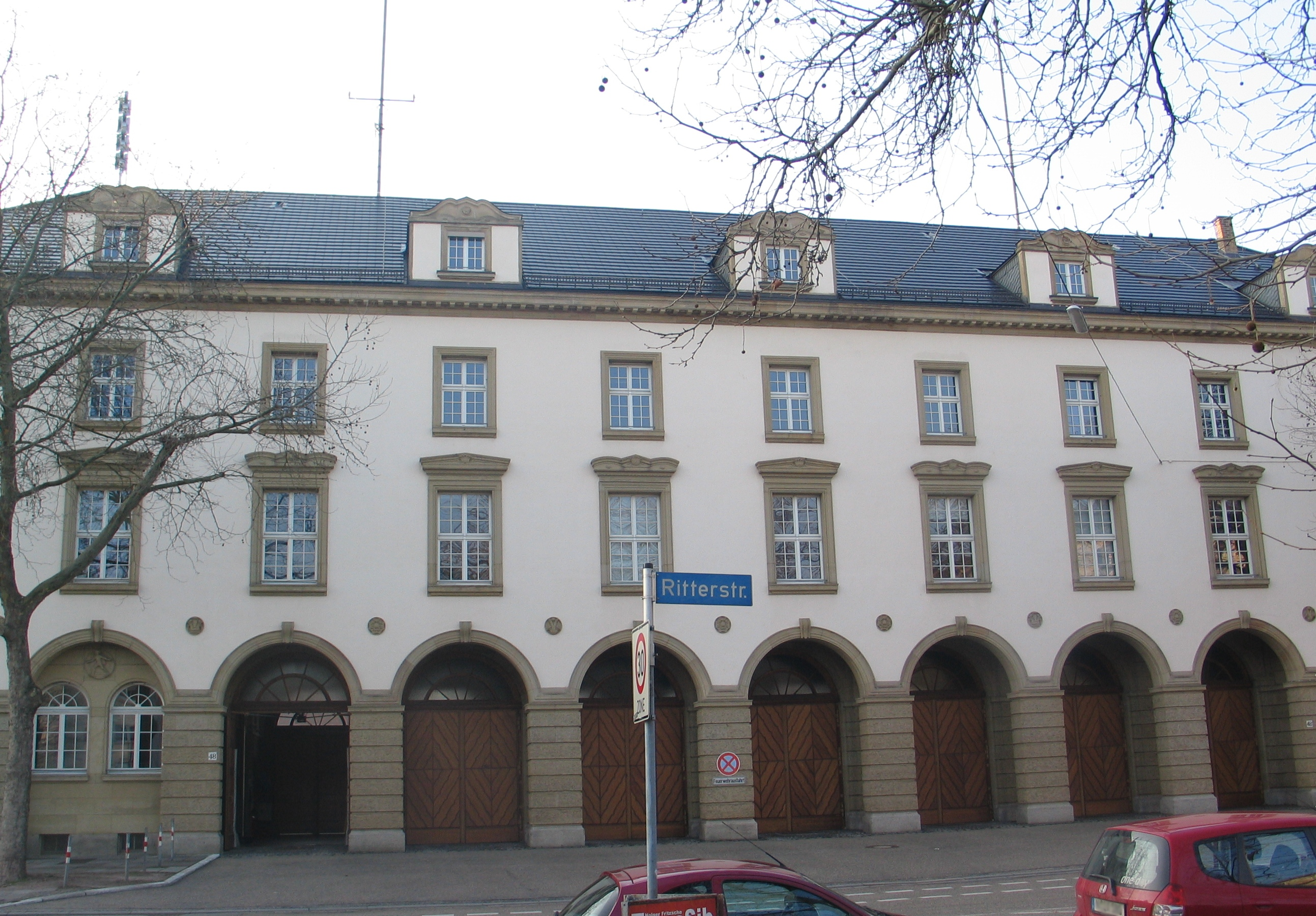 Main fire station Karlsruhe